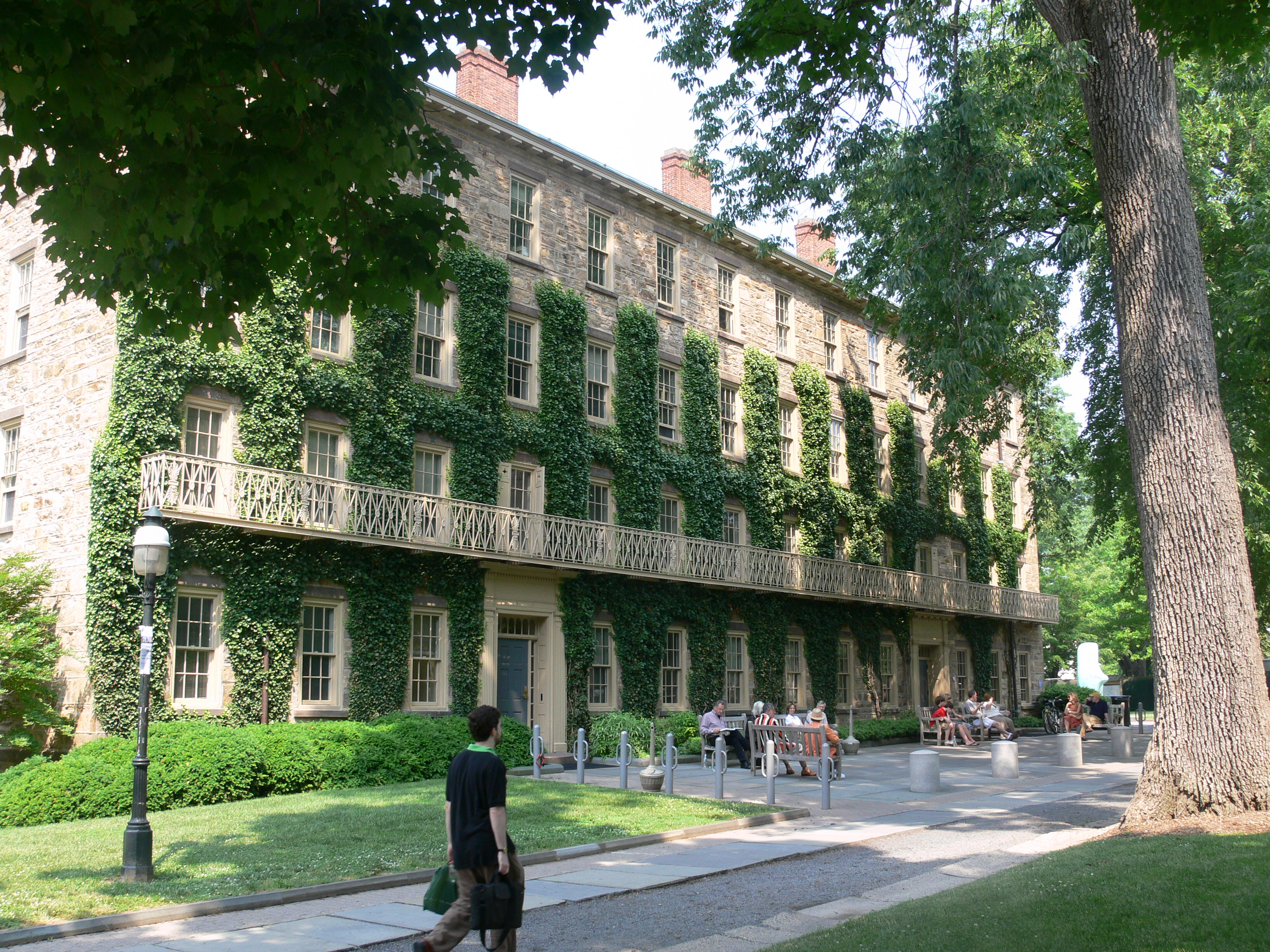 West College Princeton University, Princeton, New Jersey